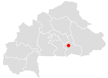 The map shows the location of the town of Garango in Burkina Faso.